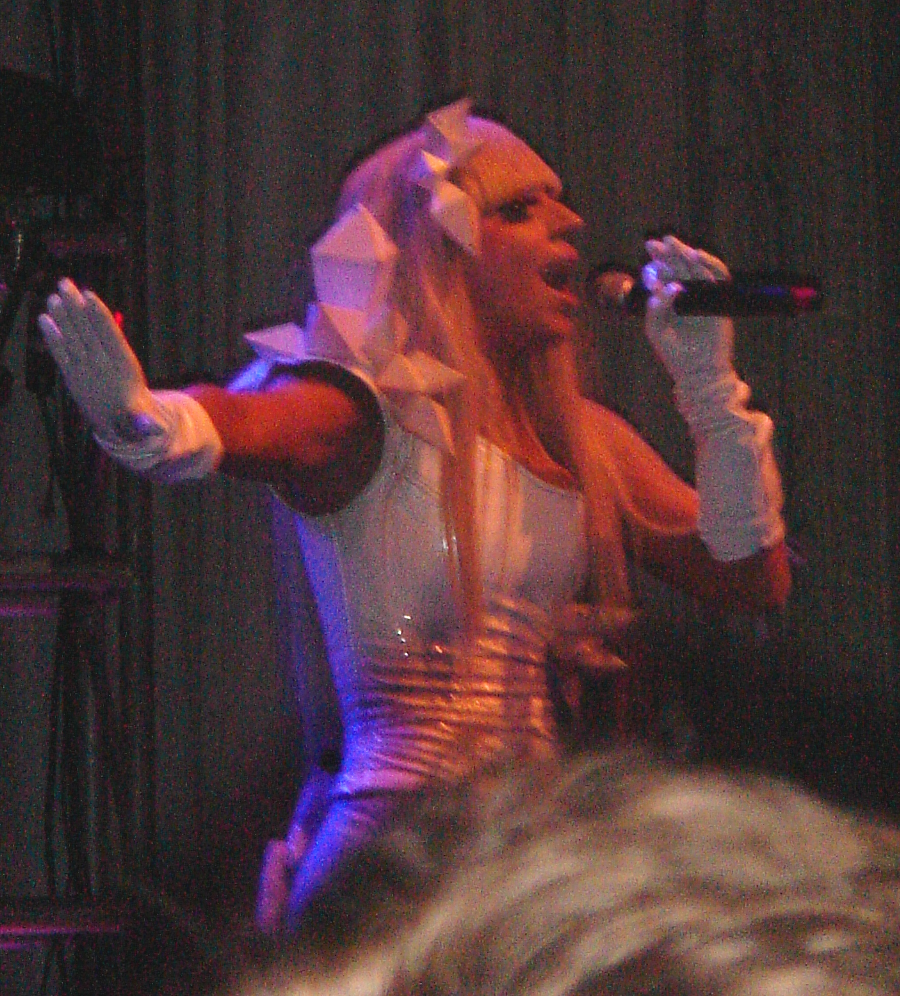 Lady Gaga performing at New York City for radio station Z100's Jingle Ball.